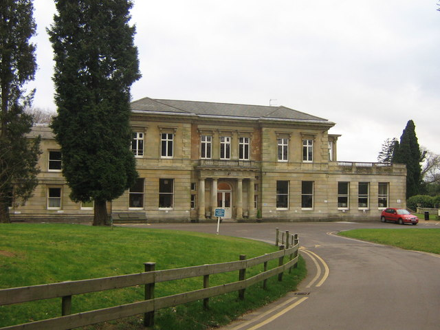 Dunottar School. Founded in 1926, this independent girls' school moved here in 1933, into "High Trees", built by Walter Blanford Waterlow in 1867 (see 645468 for more information on him).